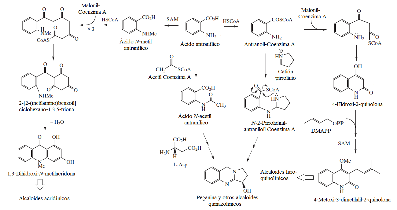 Anthranilic acid metabolites scheme